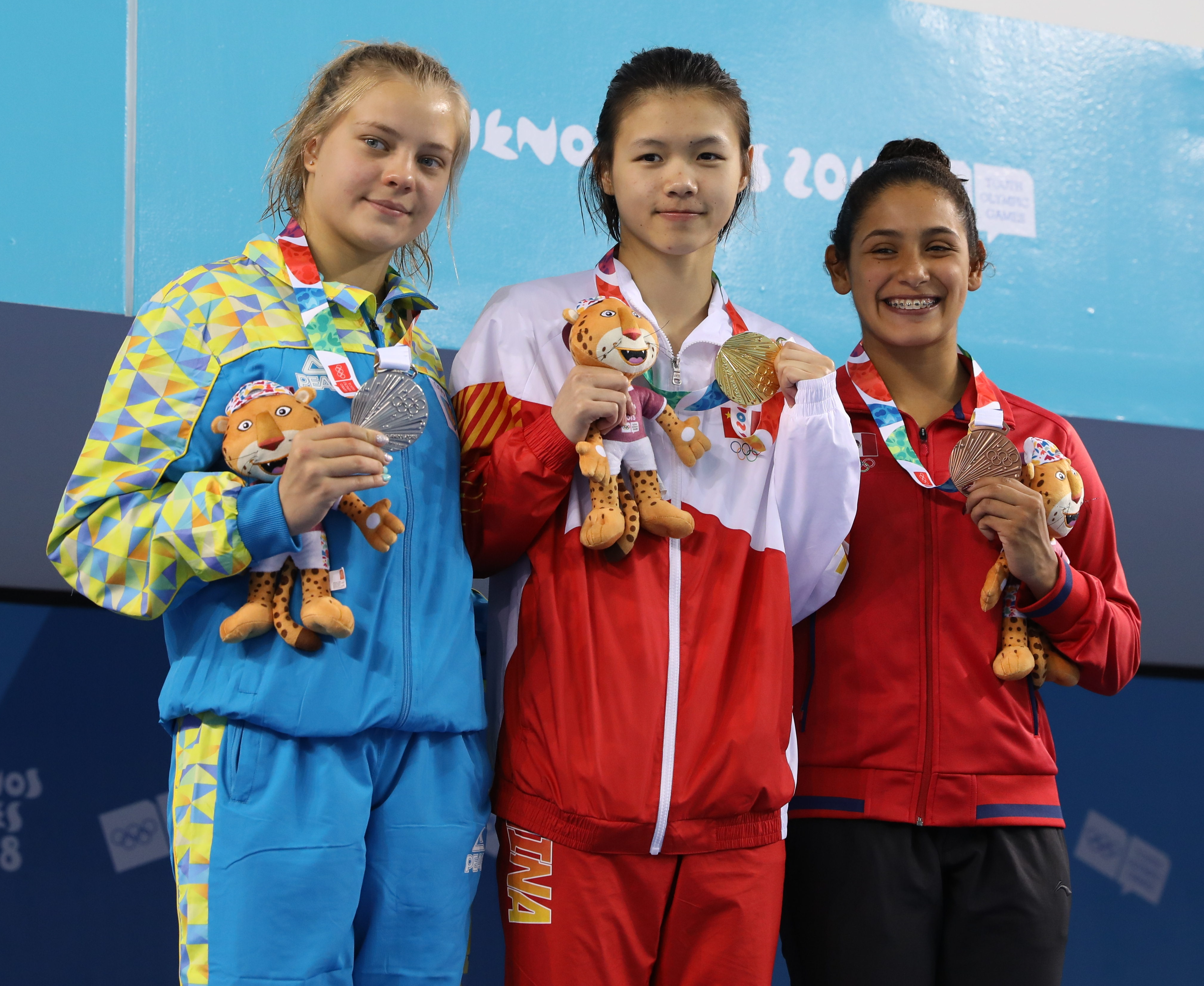 Diving, Girls 10m platform: Victory ceremony